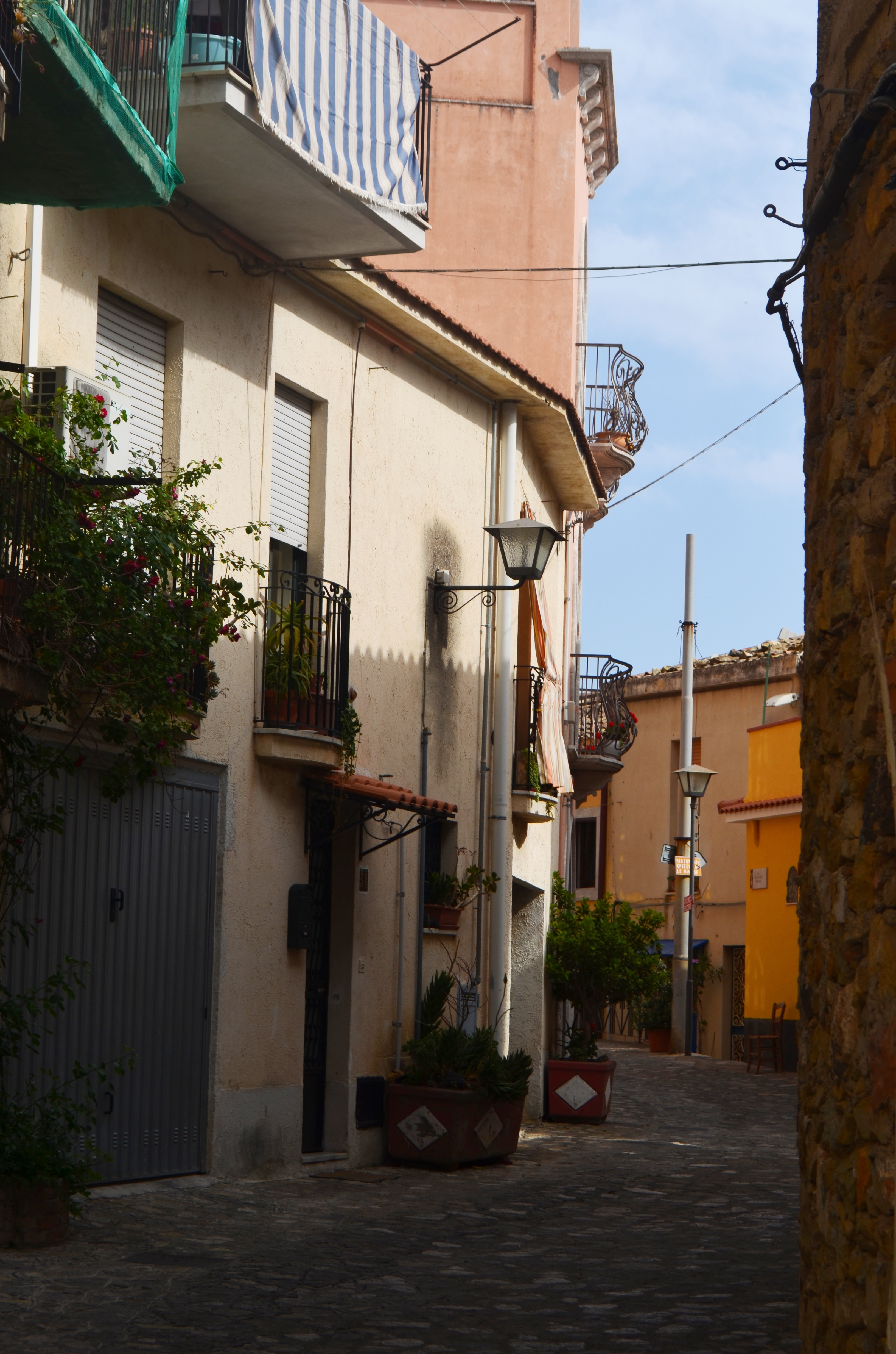 Castelmola, Sicily